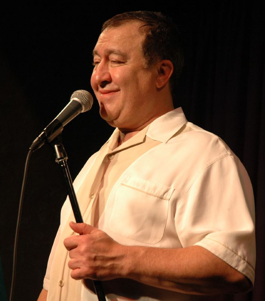 Dom Irrera performing at the Seminole Hard Rock Improv in Hollywood, Florida.